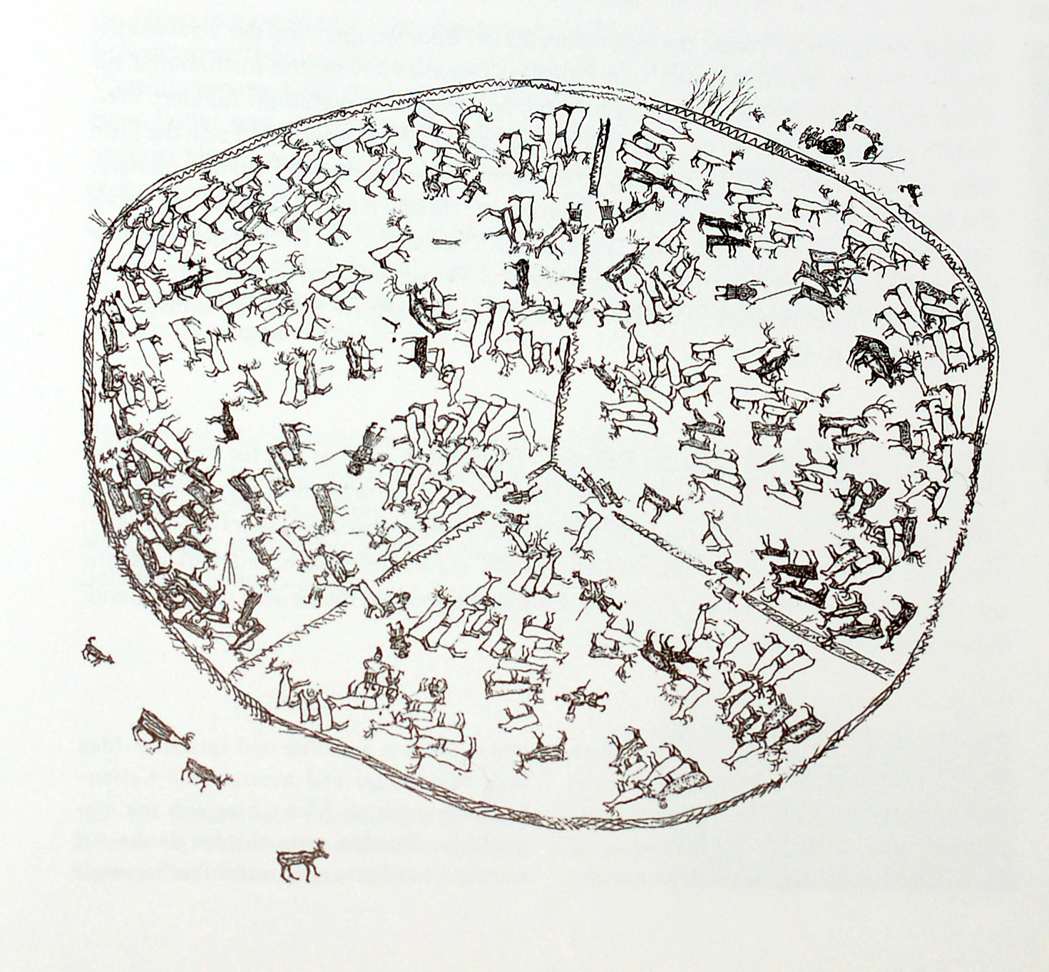 Tale of the life of Sami people